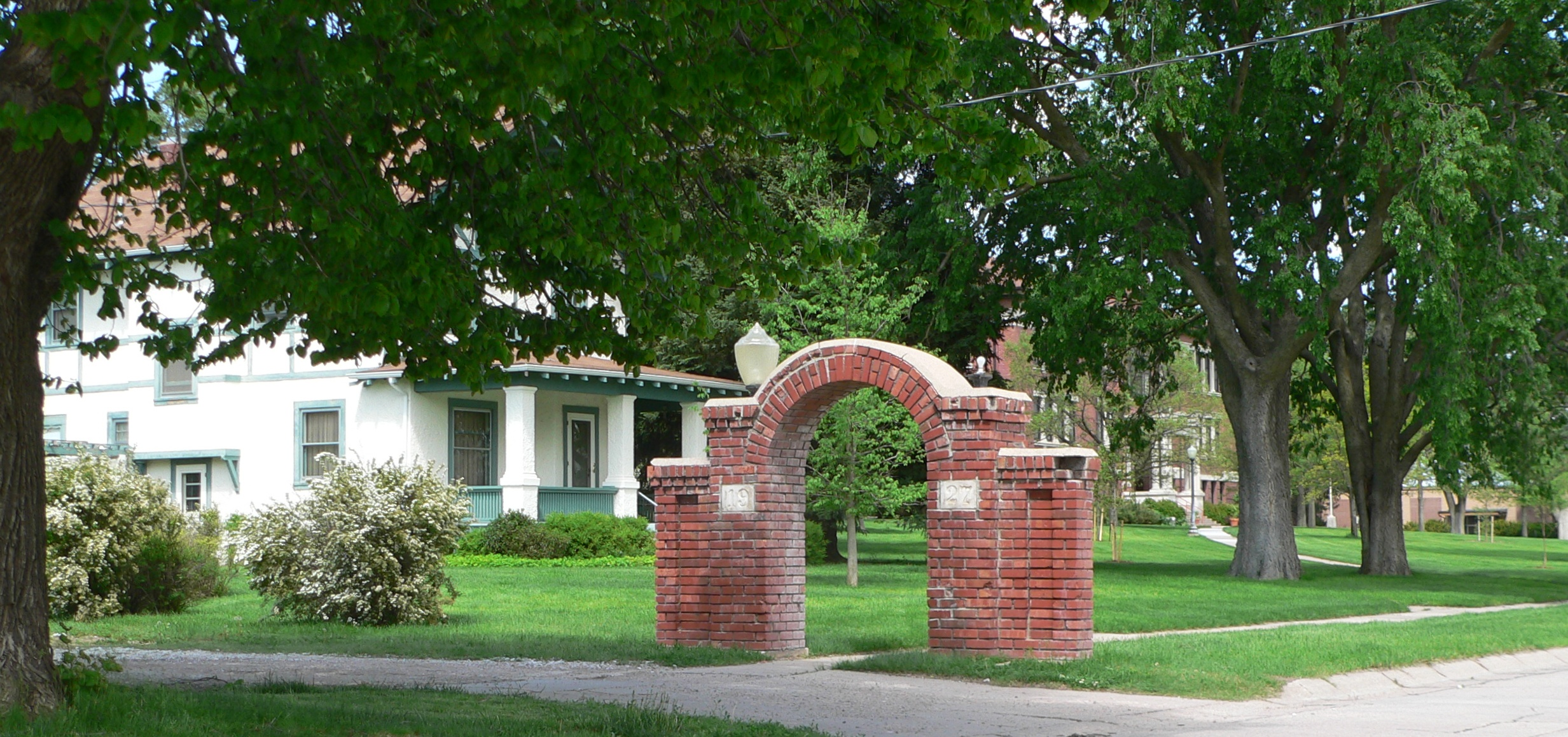 Arched gate at southwest corner of campus, Nebraska College of Technical Agriculture in Curtis, Nebraska.